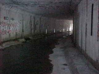 A picture from inside a Storm drain in Mississauga, Ontario, Canada. Its a large RCB type drain. Use it anywhere you like, but please give credit to Rz350 for image. I took the image myself.